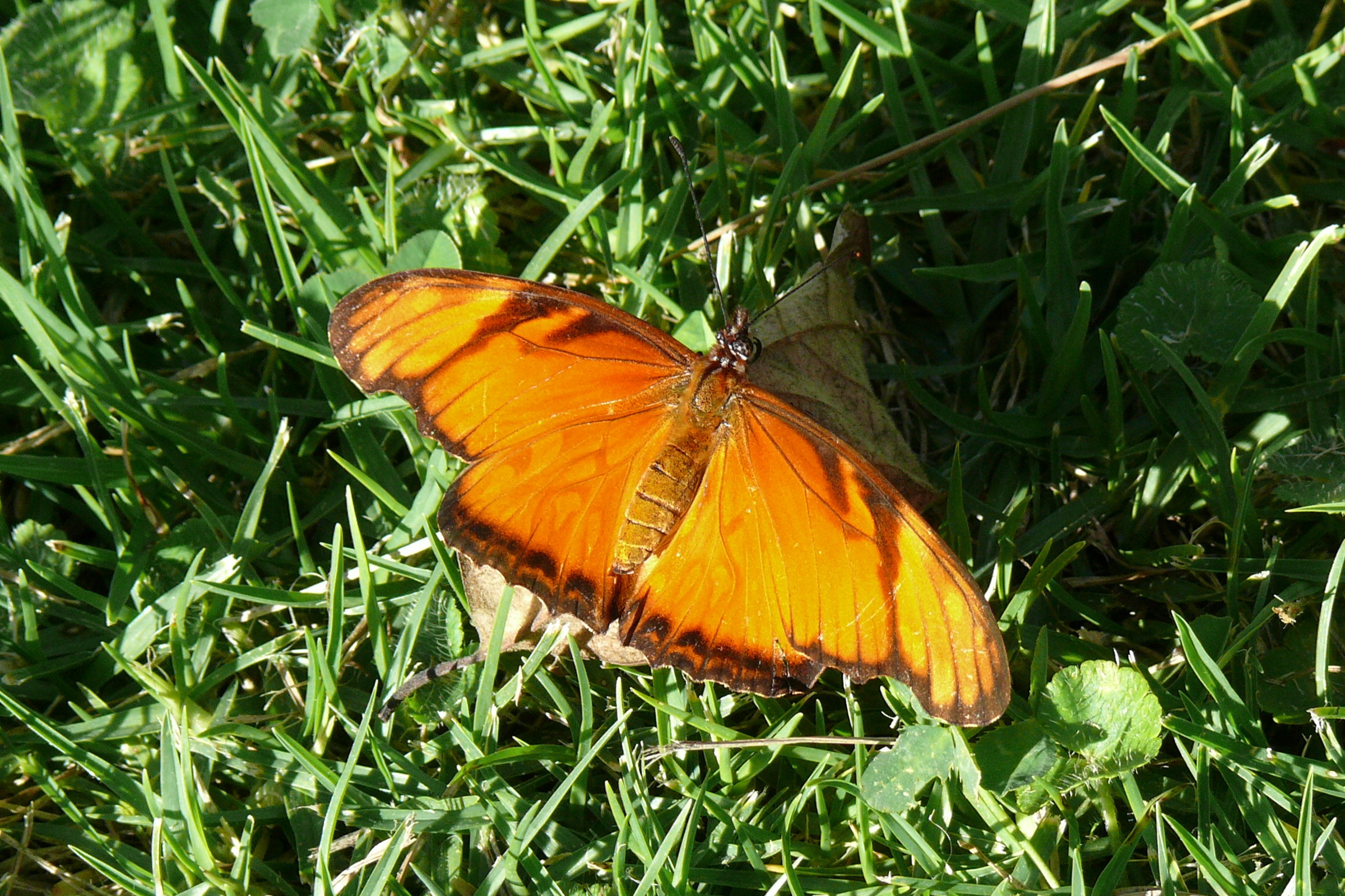 Dione juno